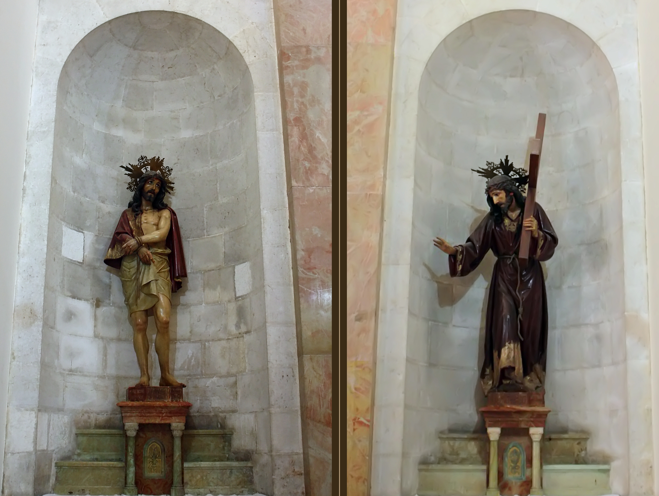 Sculptures of Jesus at Church of the Condemnation and Imposition of the Cross. Two pictures are merged into one